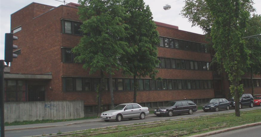 Norways college of higher veterinarian education is located on Adamstuen, Oslo, Norway.